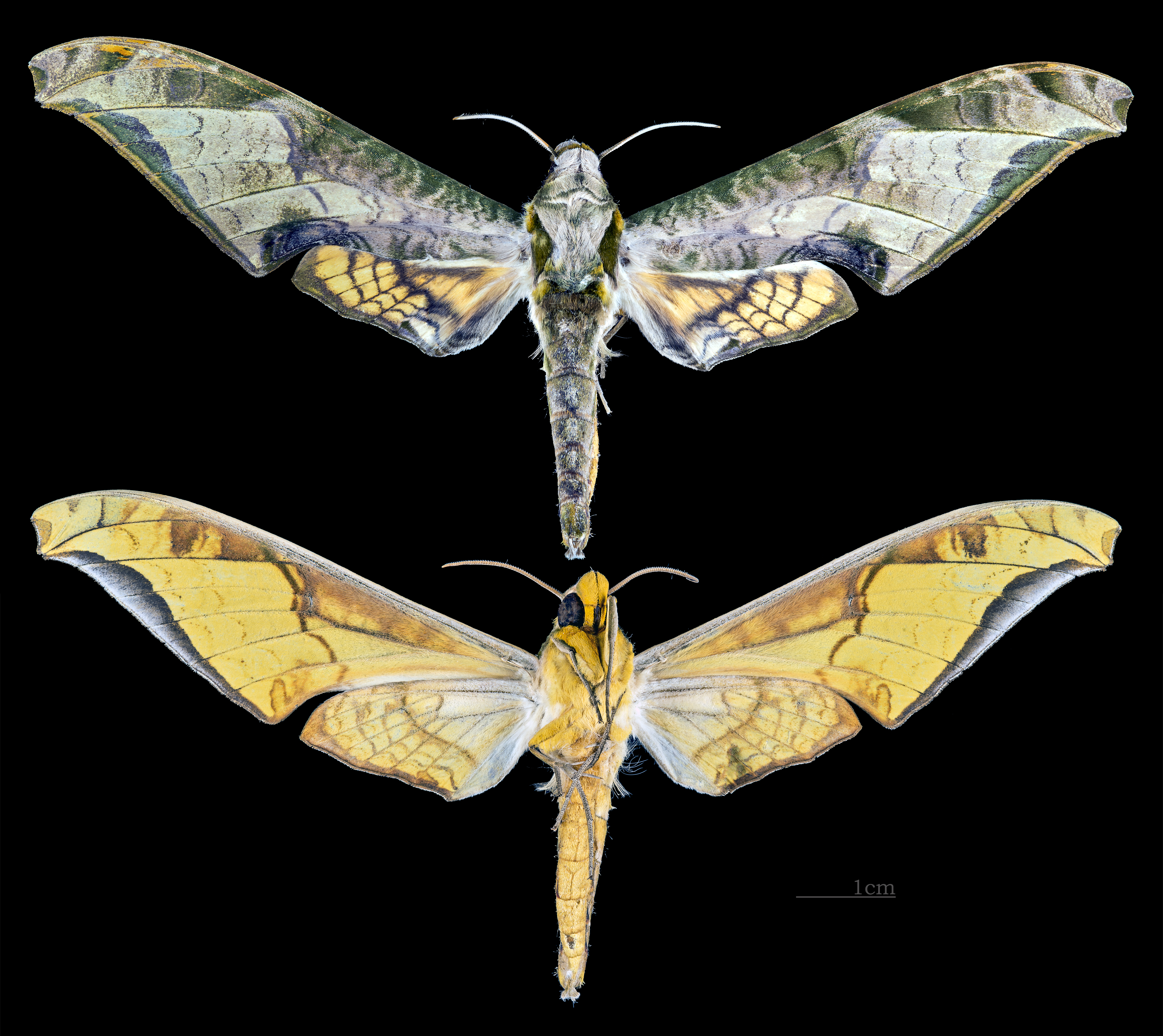 Protambulyx sulphurea - Two views of same specimen Collection of the Mathematician Laurent Schwartz